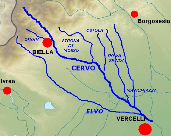 Main tributaries of the Cervo (Piedmont, Italy)